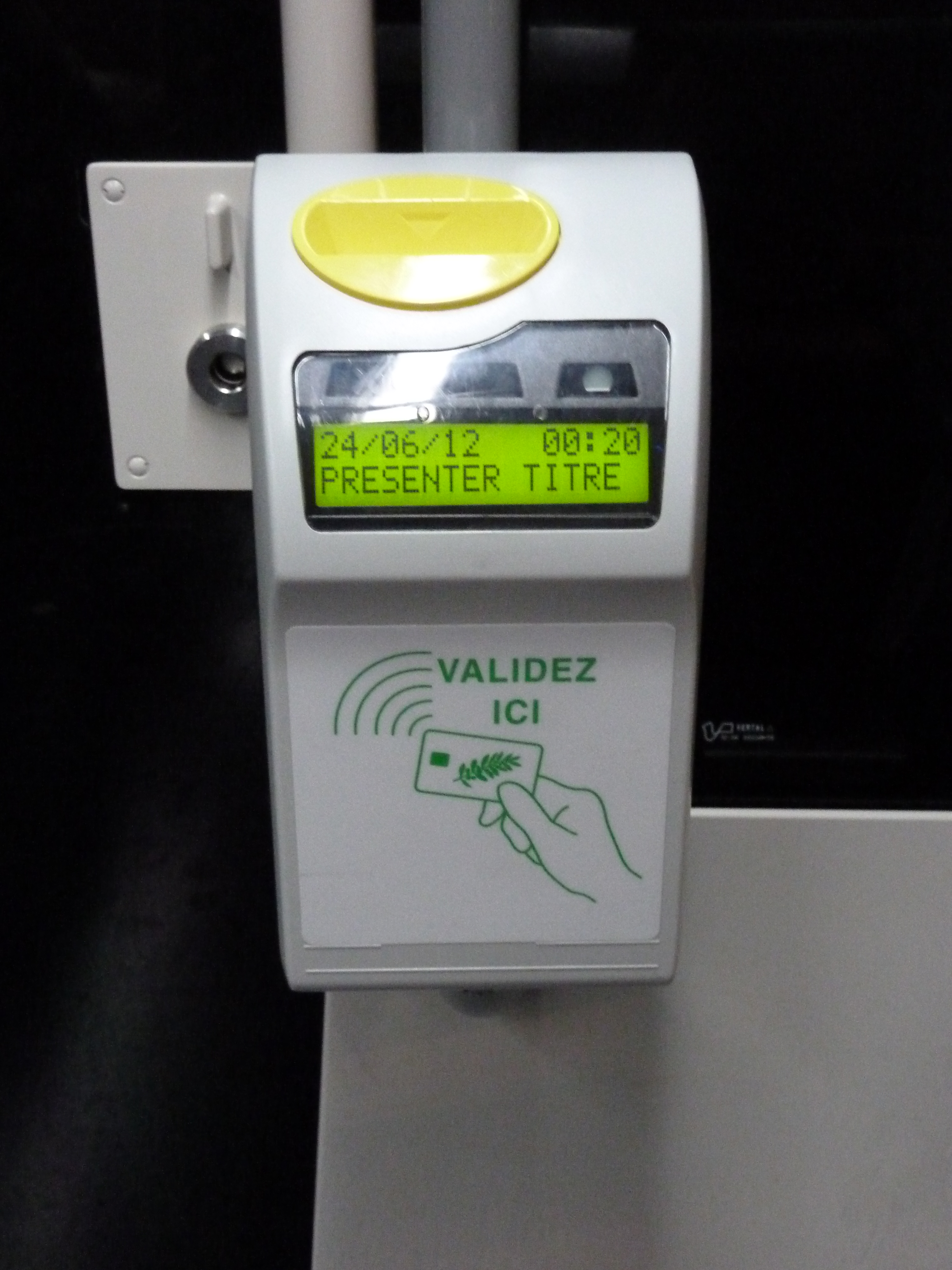 Validator of Lignes d'Azur in tram T1 in Nice